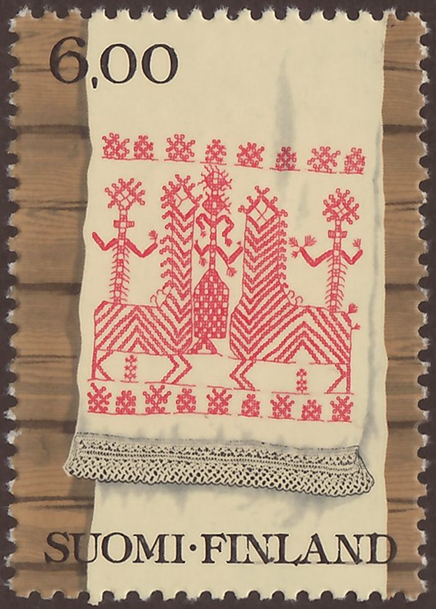 Stamp of Finland; 1980; definitive stamp of the issue "Folk art"; stamp with drawing to the topic "art of weaving"; drawing of a small towel 0with a typical Karelian embroidery (called "Käspaikka") before wooden board; stamp postmarked Stamp: Michel: No. 862; Yvert et Tellier: No. 826; AFA: No. 869 Color: multicolored on luminescent paper Watermark: none Nominal value: 6.00 (Markkaa) Postage validity: from 9 April 1980 until 31 December 2011 Stamp picture size (printed area): 24.5 x 34.5 mm